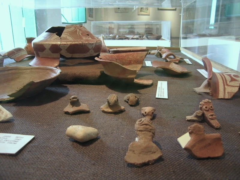 Taíno pottery from pre-Columbian ages, at El Fortín del Conde de Mirasol, Vieques Island